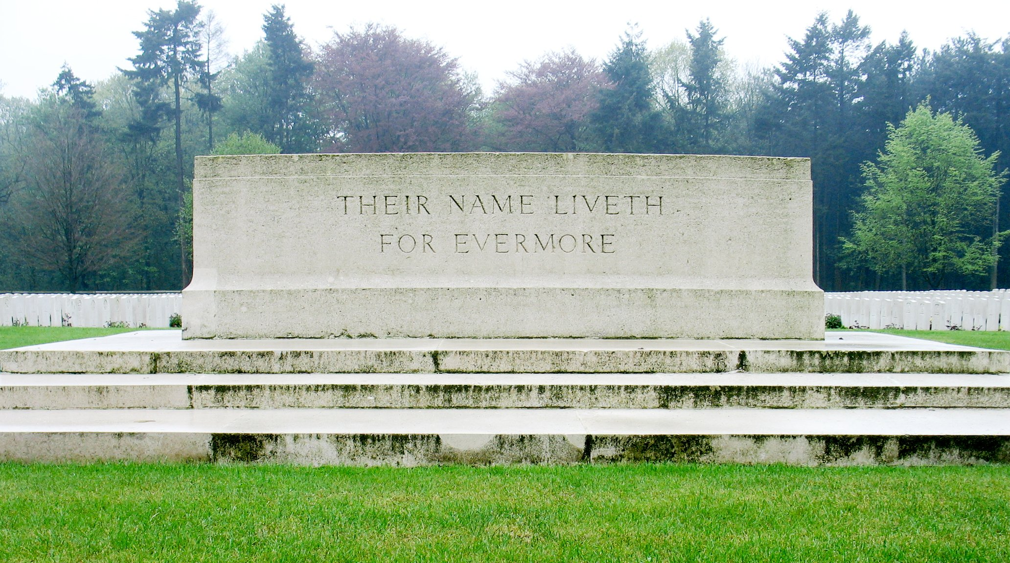 Commonwealth War Cemetary 'Stone of Remembrance' - inscription: Their name liveth for evermore. Taken at Buttes New British Cemetery, near Ypres in Belgium.